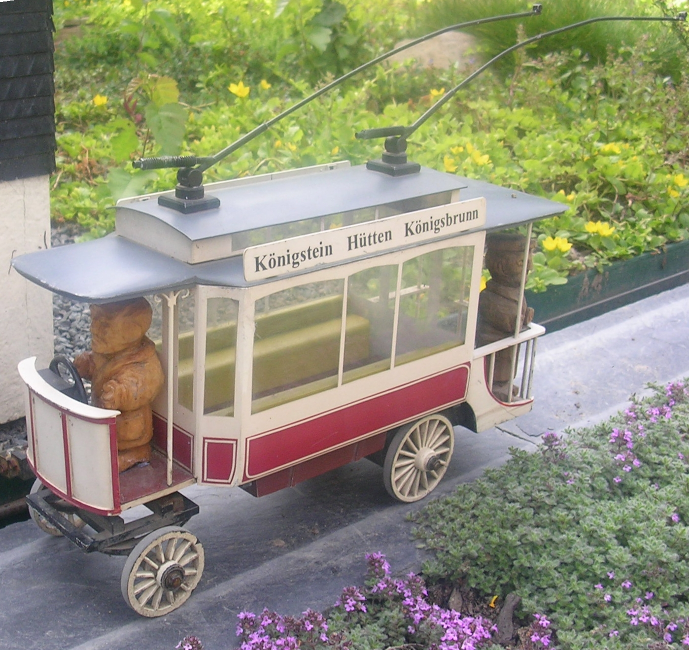 Little Saxon Switzerland is a park in Dorf Wehlen (Stadt Wehlen, Saxony, Germany) with models of buildings, nature und transport of Saxon Switzerland.